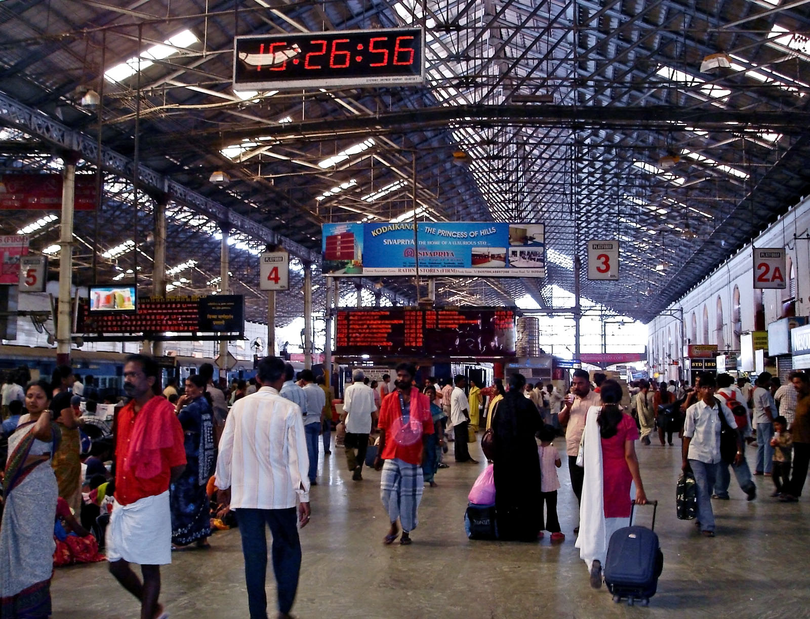 Inside Chennai Central Station, India